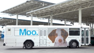 This bus regularly passed the Headquarters of Focus on the Family, one if the leading forces in the fight against marriage equality.